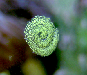 Egg spiral of the Nudibranch Oxynoe olivacea deposited on the glass of the reef aquarium of aquarist Mike Giangrasso.